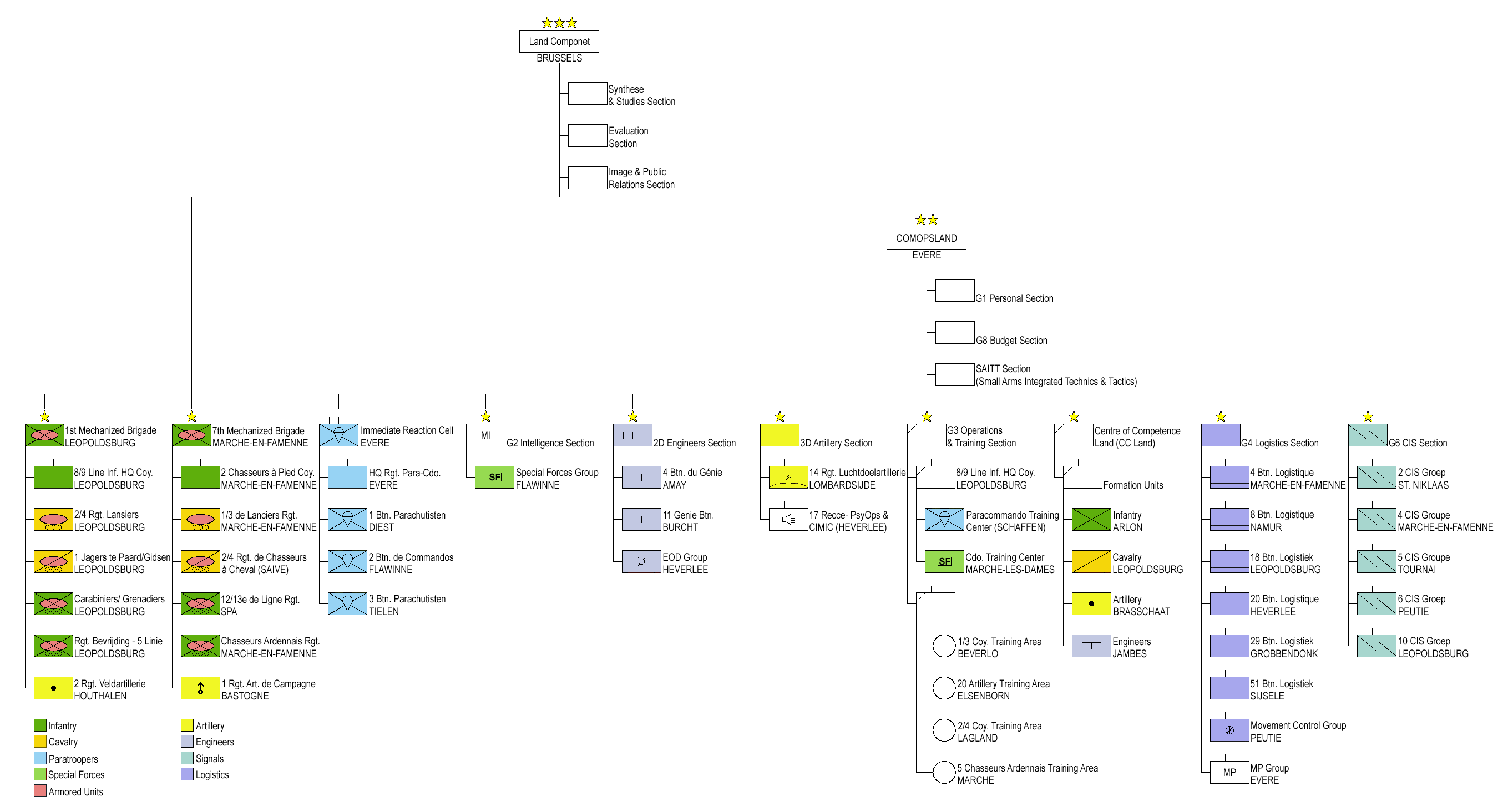 Structure of the Belgium Militarys Land Component until the reform undertaken in 2011